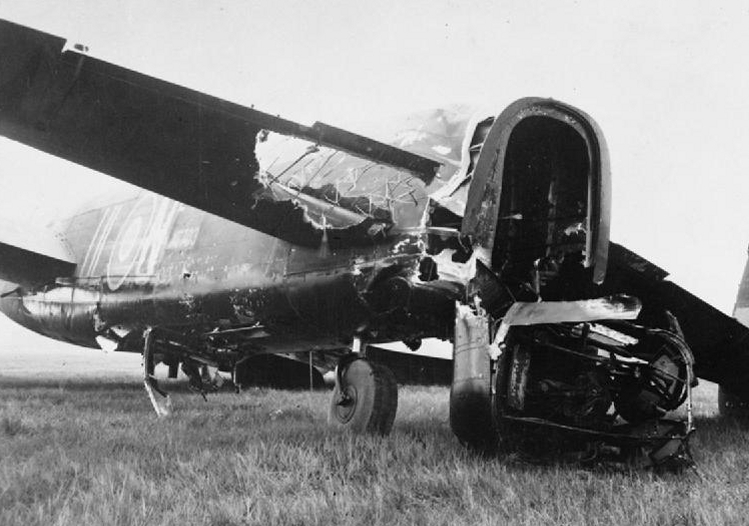 Lancaster returns damaged from the raid on the German barracks at Mailly Le Camp